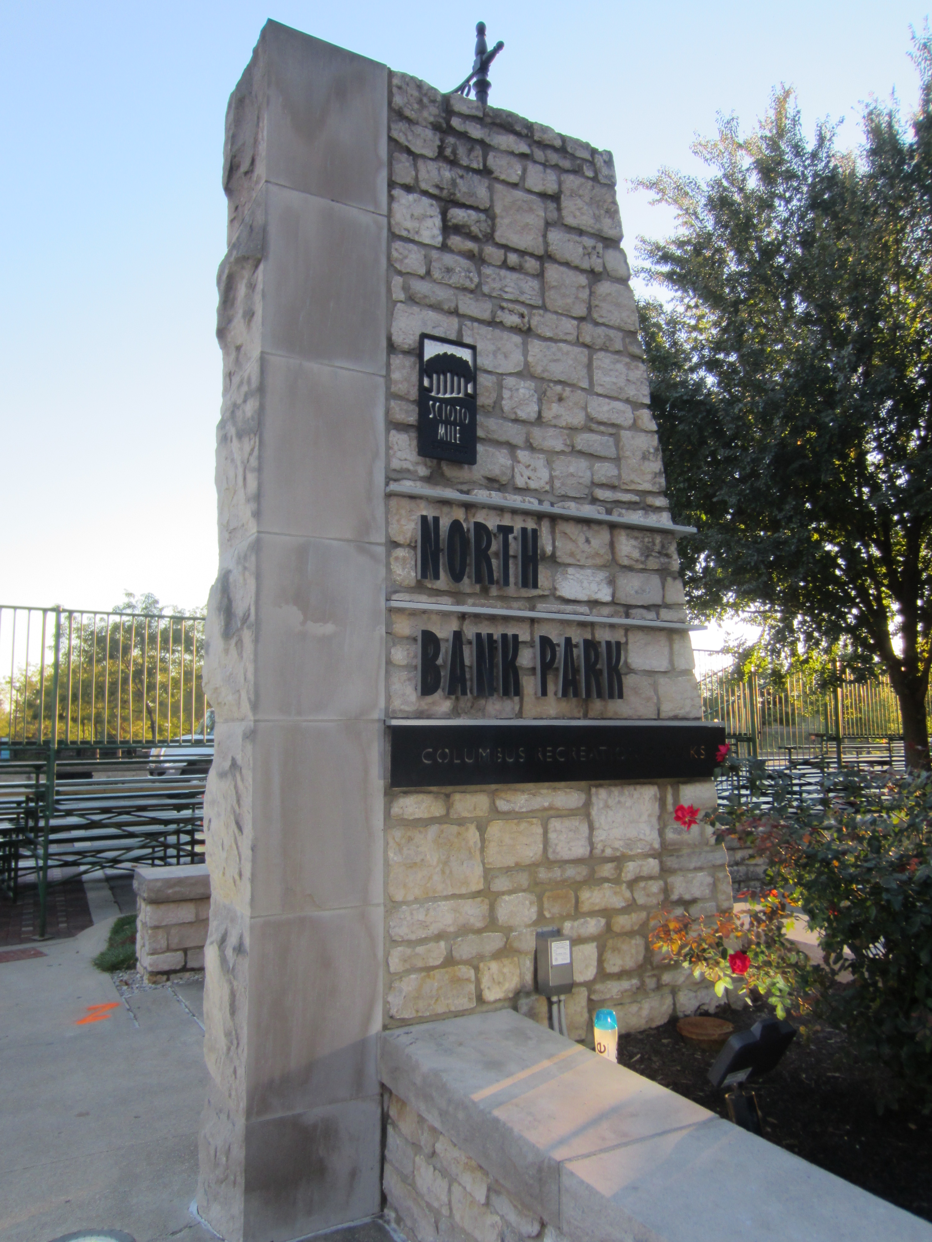 Columbus, Ohio (2018)